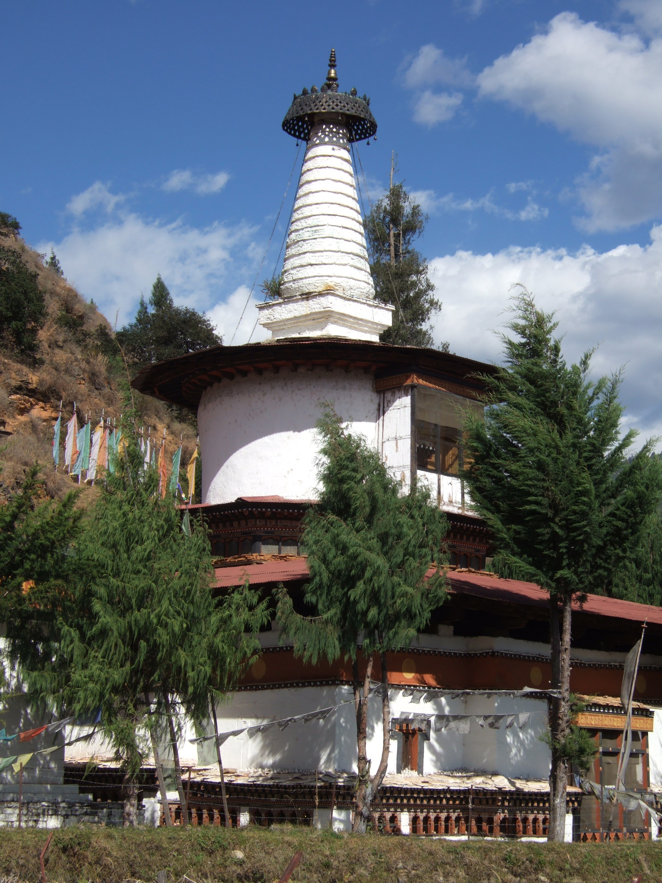 Jangtsa Dumtseg Lhakhang (ཟླུམ་བརྩེག་ལྷ་ཁང) Stupa — in Paro town, Bhutan. Established and designed by Tibetan architect Lama Tangtong Gyalpo, in 1421 or 1433.